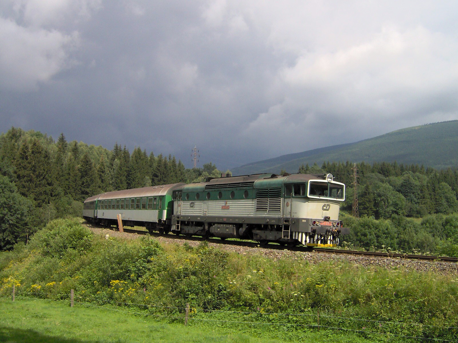 Diesel locomotive 754.075 between Ostružná and Petříkov, Czech Republic